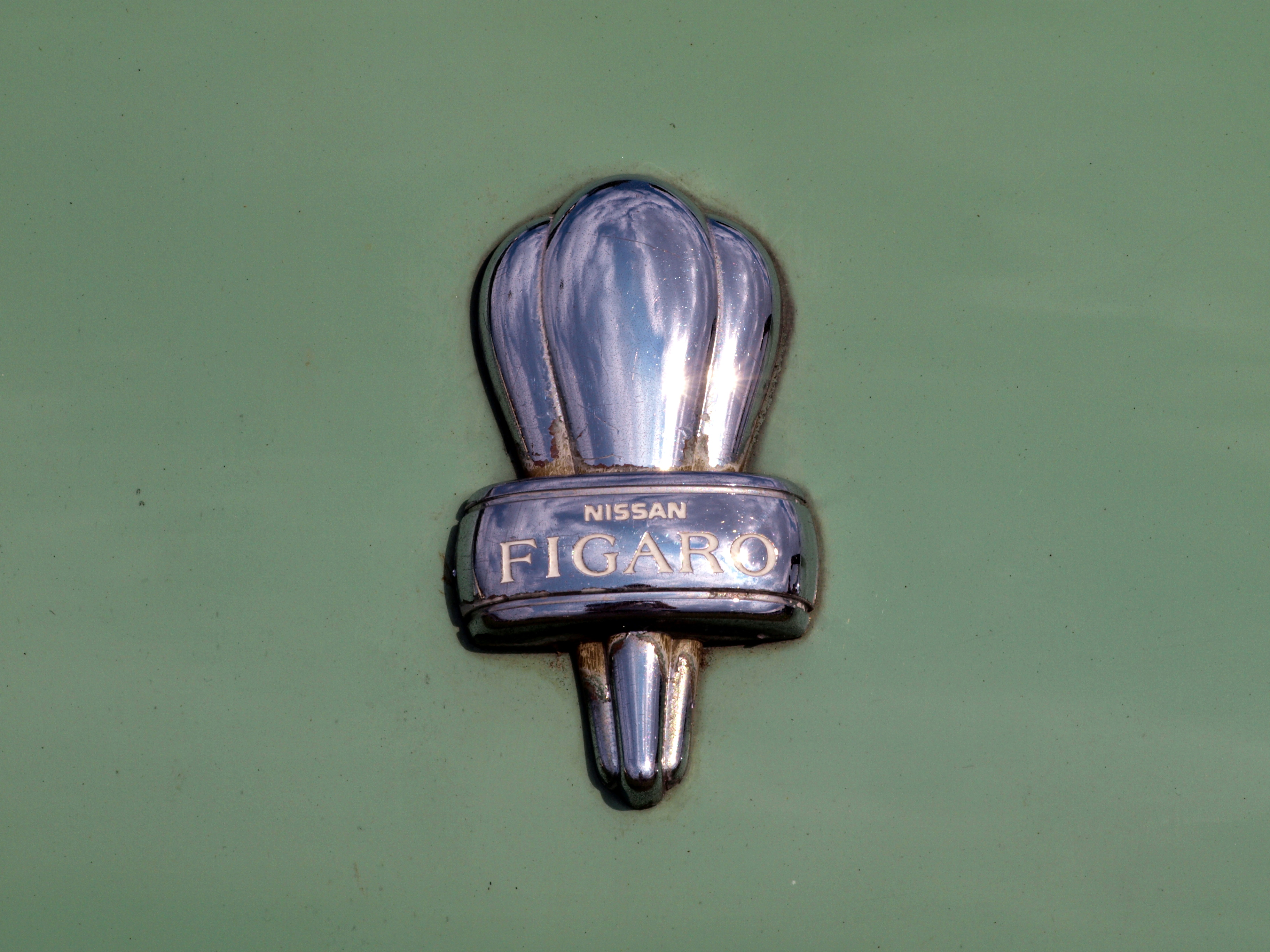 Photographed at the 2010 Autotron Classic car meeting, Rosmalen, The Netherlands. OLYMPUS DIGITAL CAMERA